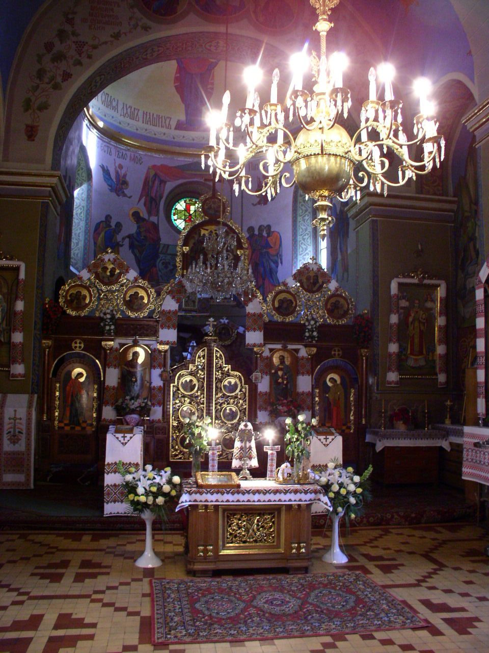 Church of Saint Nicholas. Lviv, Ukraine